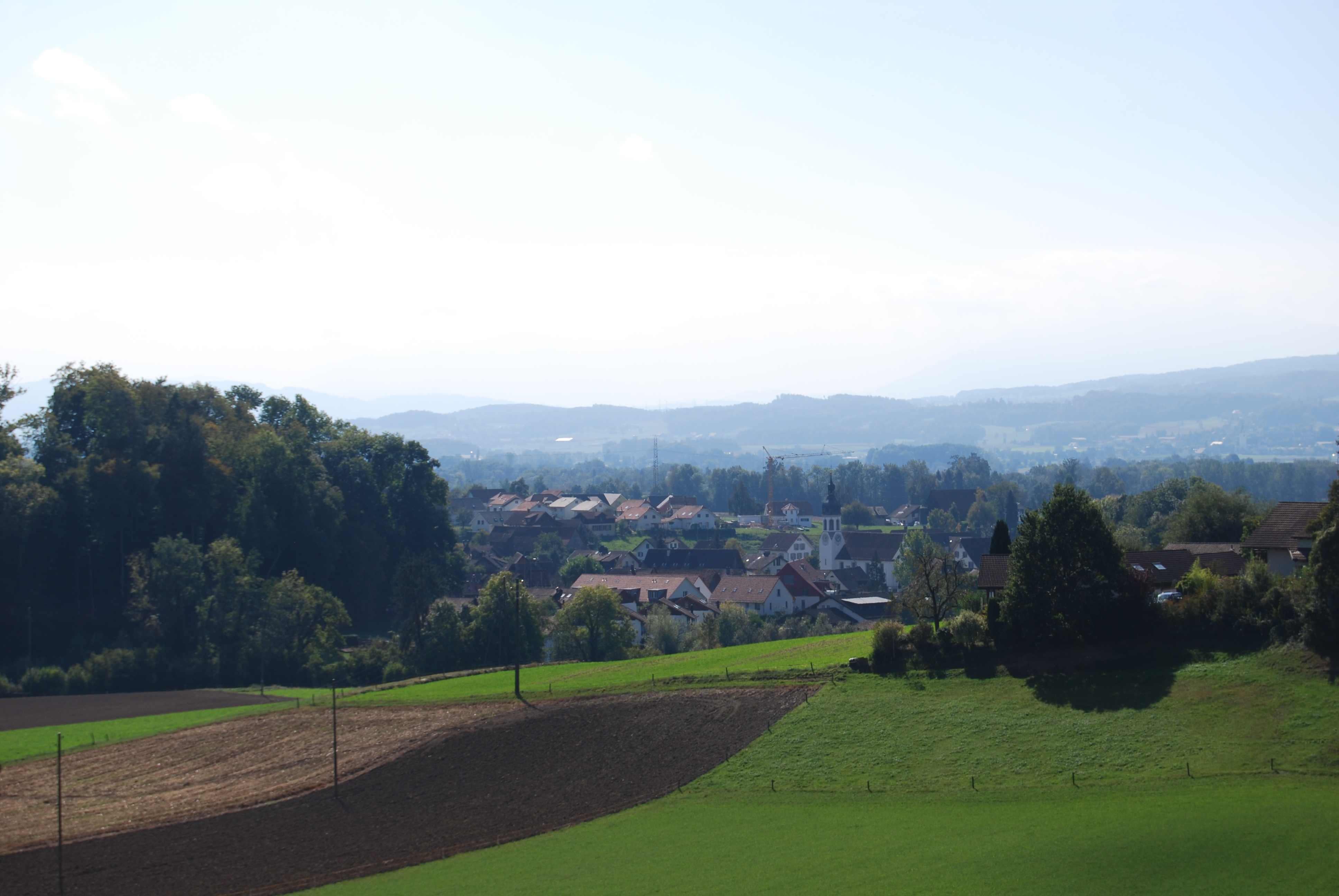 Jonen, canton of Aargau, SwitzerlandEsperanto: Jonen, Kantono Argovio, Svislando